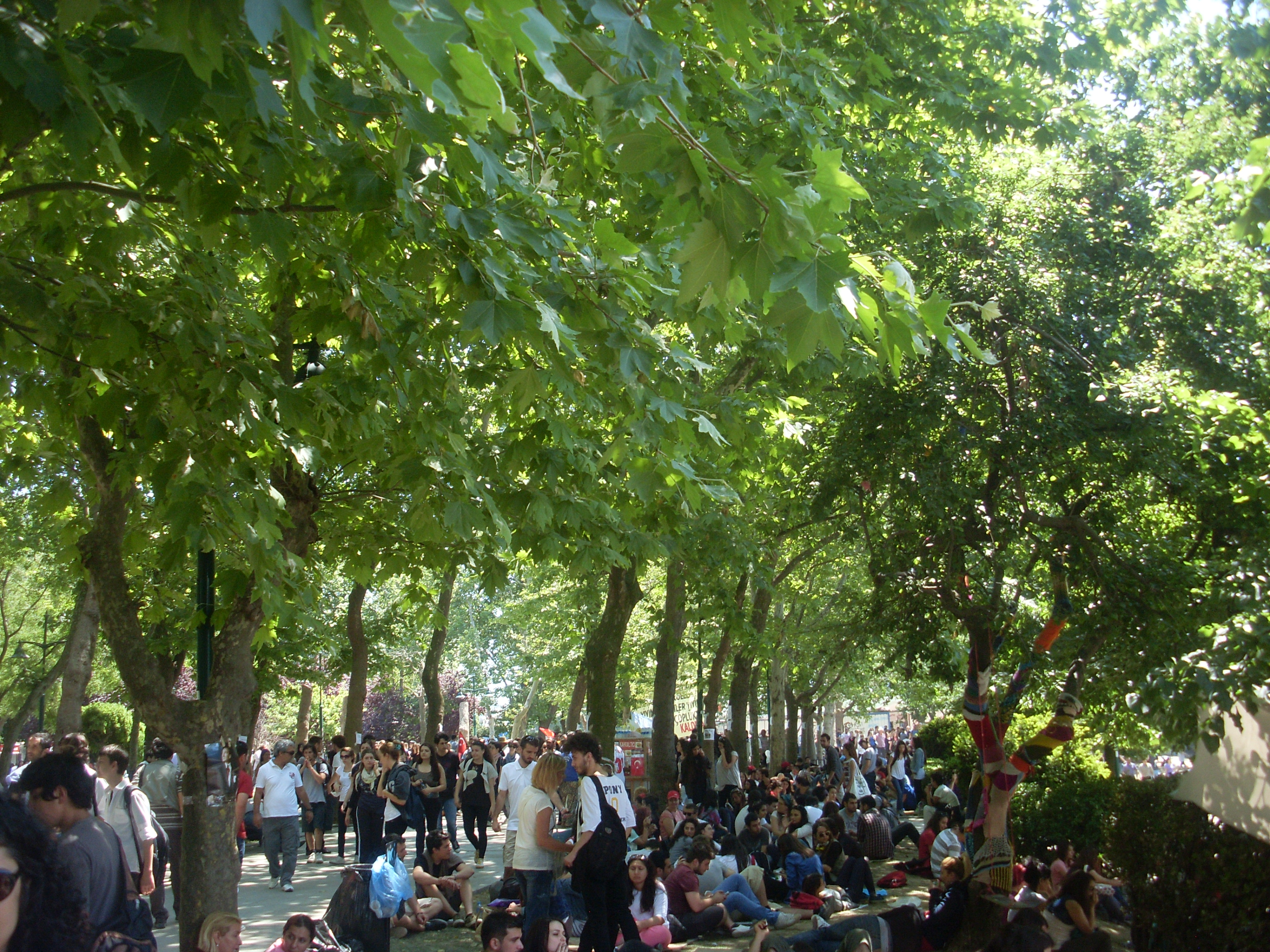 People at Taksim Gezi Park on 3rd Jun 2013